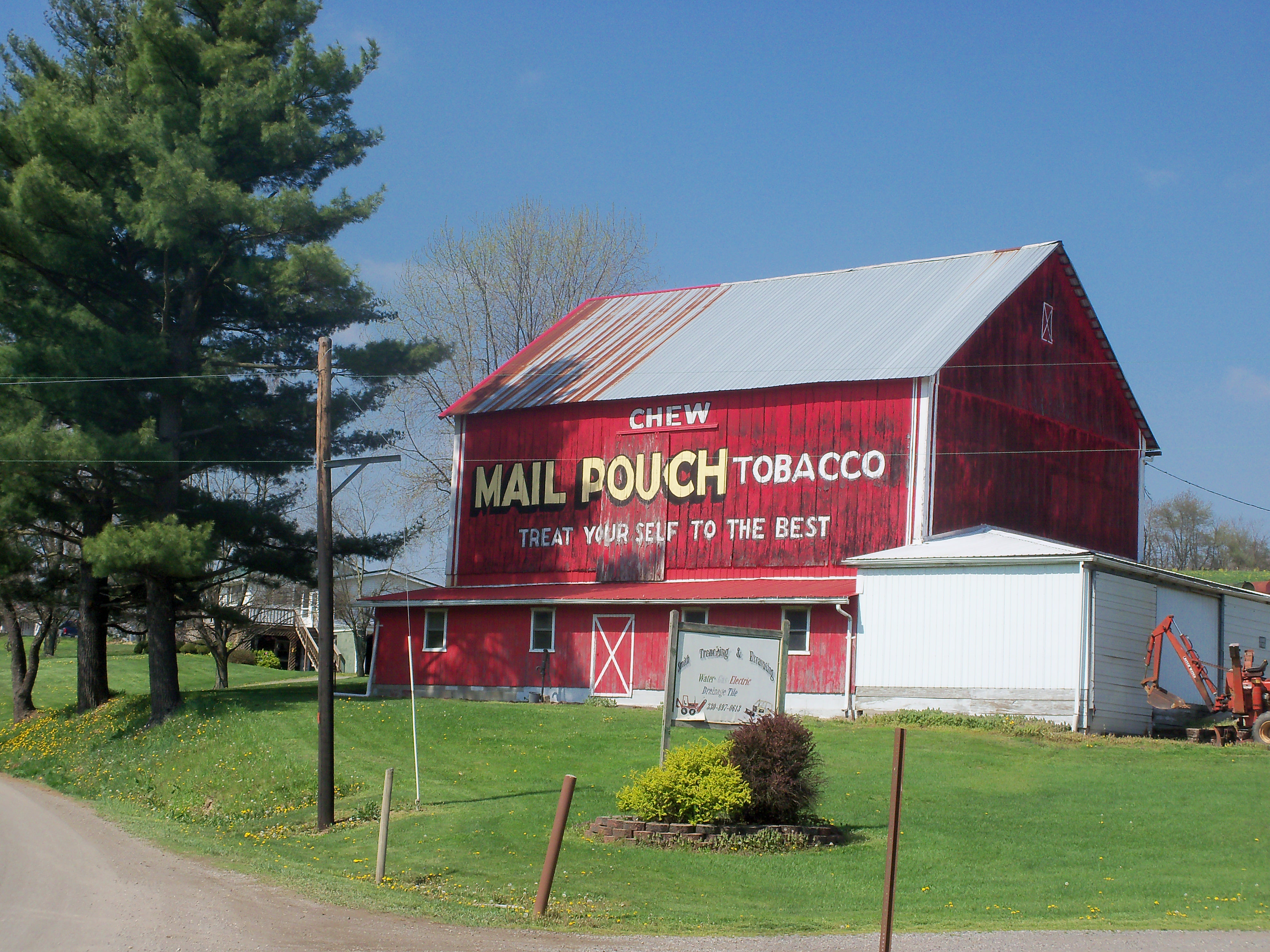 A non-traditional color scheme on a Mail Pouch Tobacco Barn in Coshocton County, Ohio